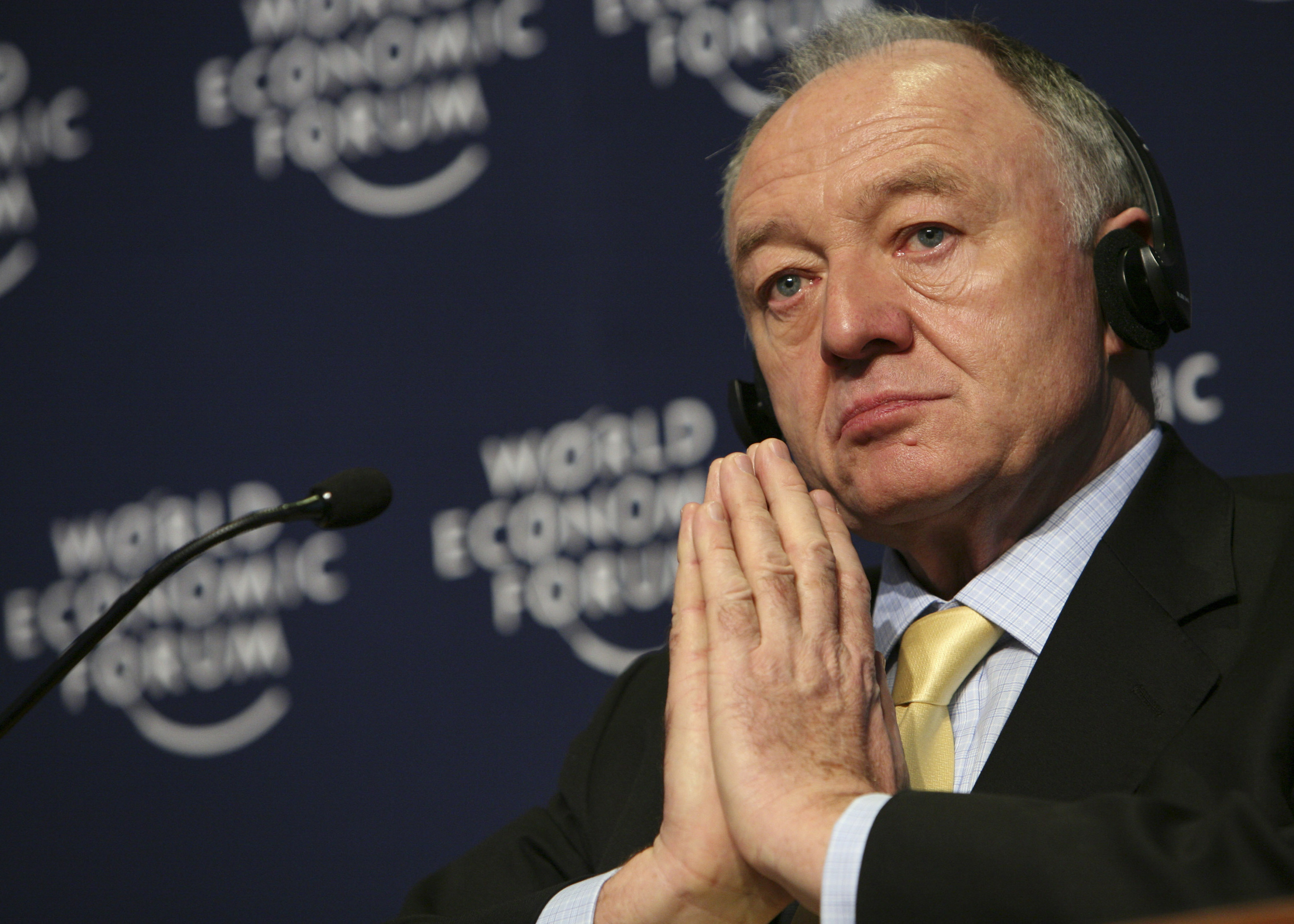 DAVOS/SWITZERLAND, 26JAN08 - Ken Livingstone, Mayor of London, United Kingdom captured during the session 'SlimCity - Managing Urbanization' at the Annual Meeting 2008 of the World Economic Forum at the Hotel National in Davos, Switzerland, January 26, 2008. Copyright World Economic Forum ( by Annette Boutellier